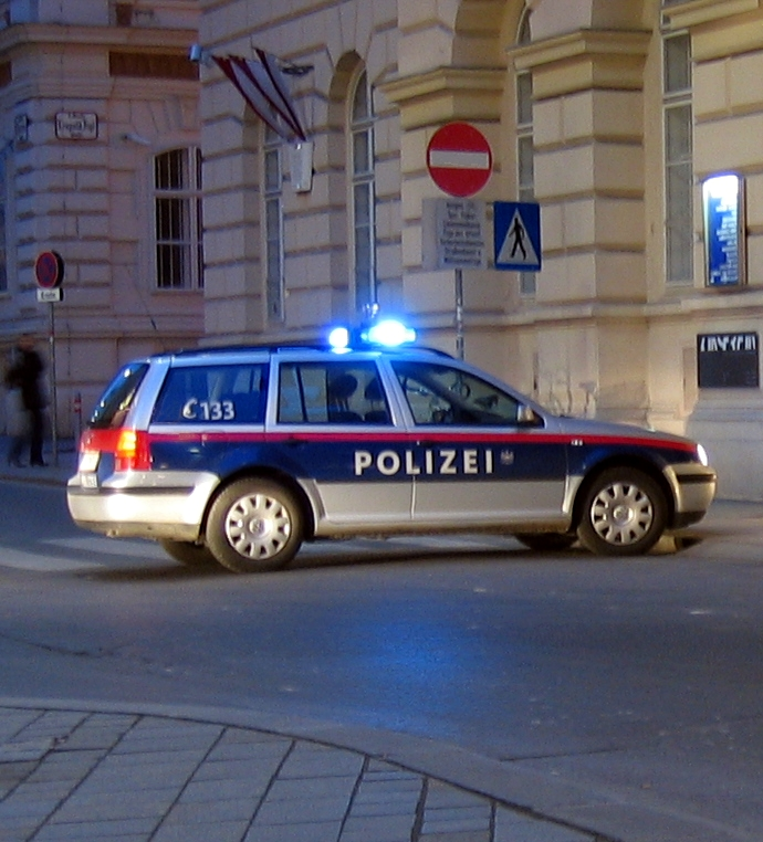 A typical Austrian police car (brand: VW Golf Variant) standing by with enabled light bar in Vienna during an police operation in the evening. The blue-red-silver exterior design was officially introduced in 2005.